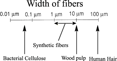 width of fibers